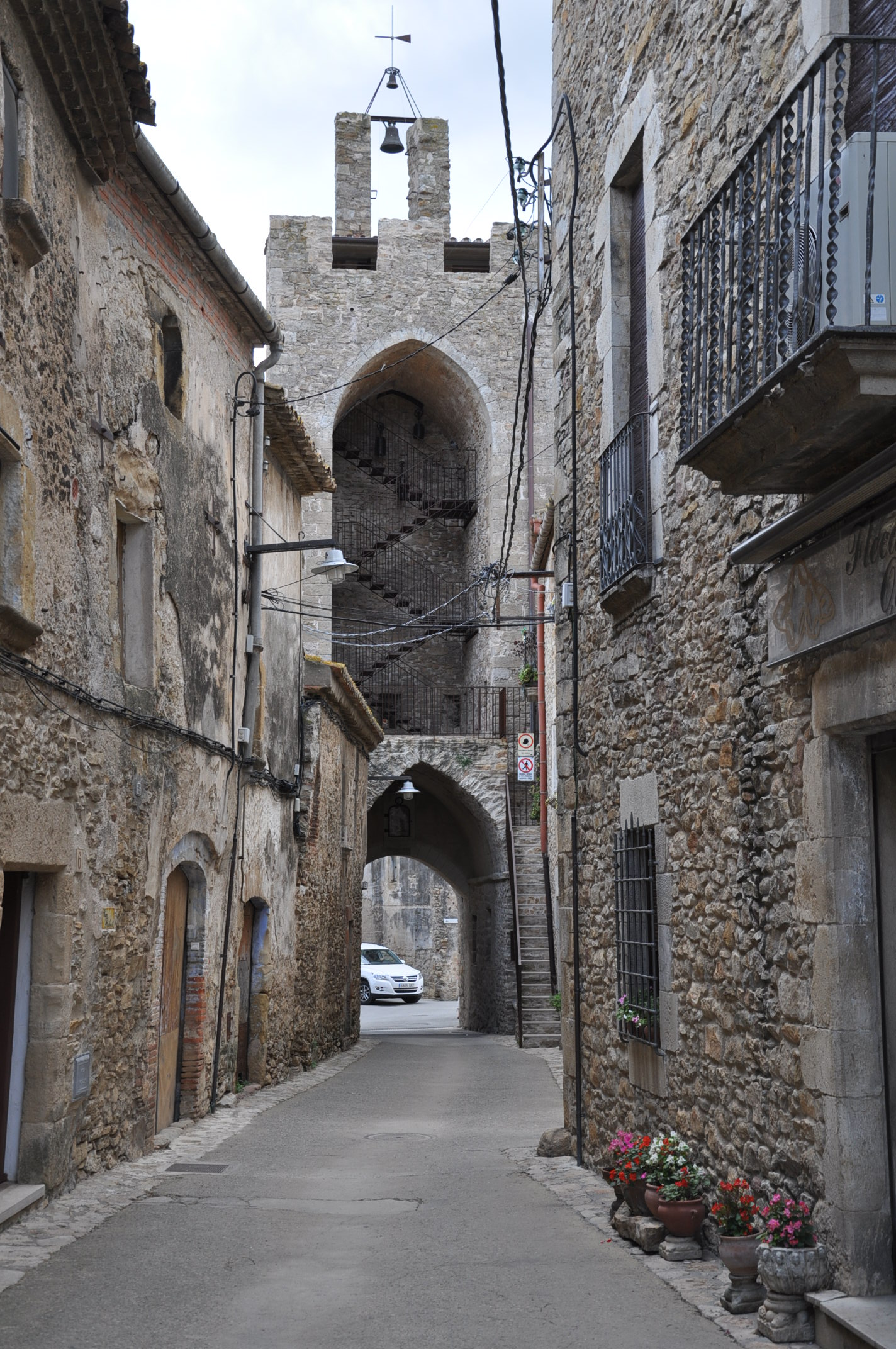 Carrer Major (main street) and Torre de les Hores (clock tower) in Palau-sator, a fortified village in the County of Baix Empordà (Catalonia, Spain).